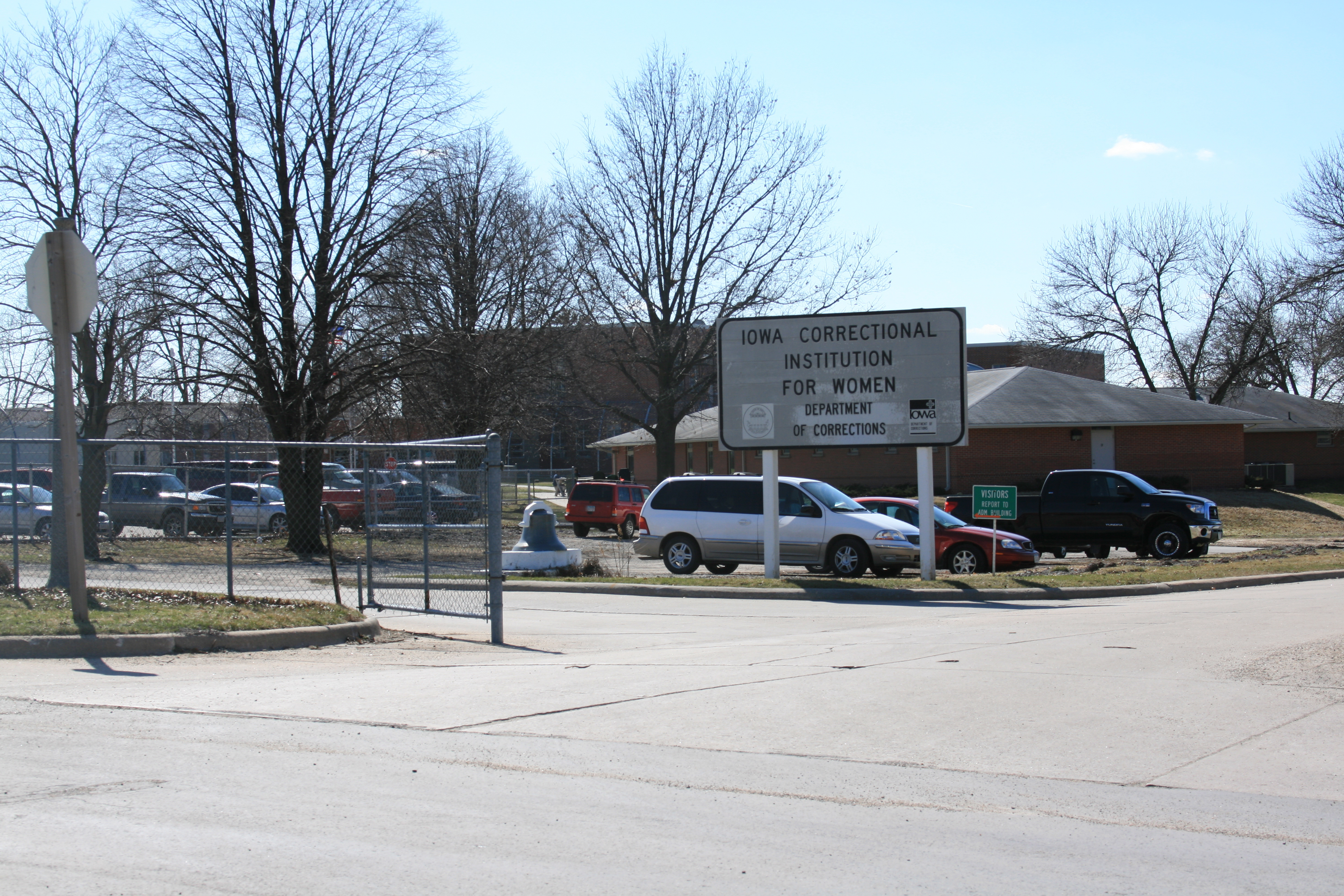 Entrance to the Iowa Correctional Institution for Women, located in Mitchellville, Iowa